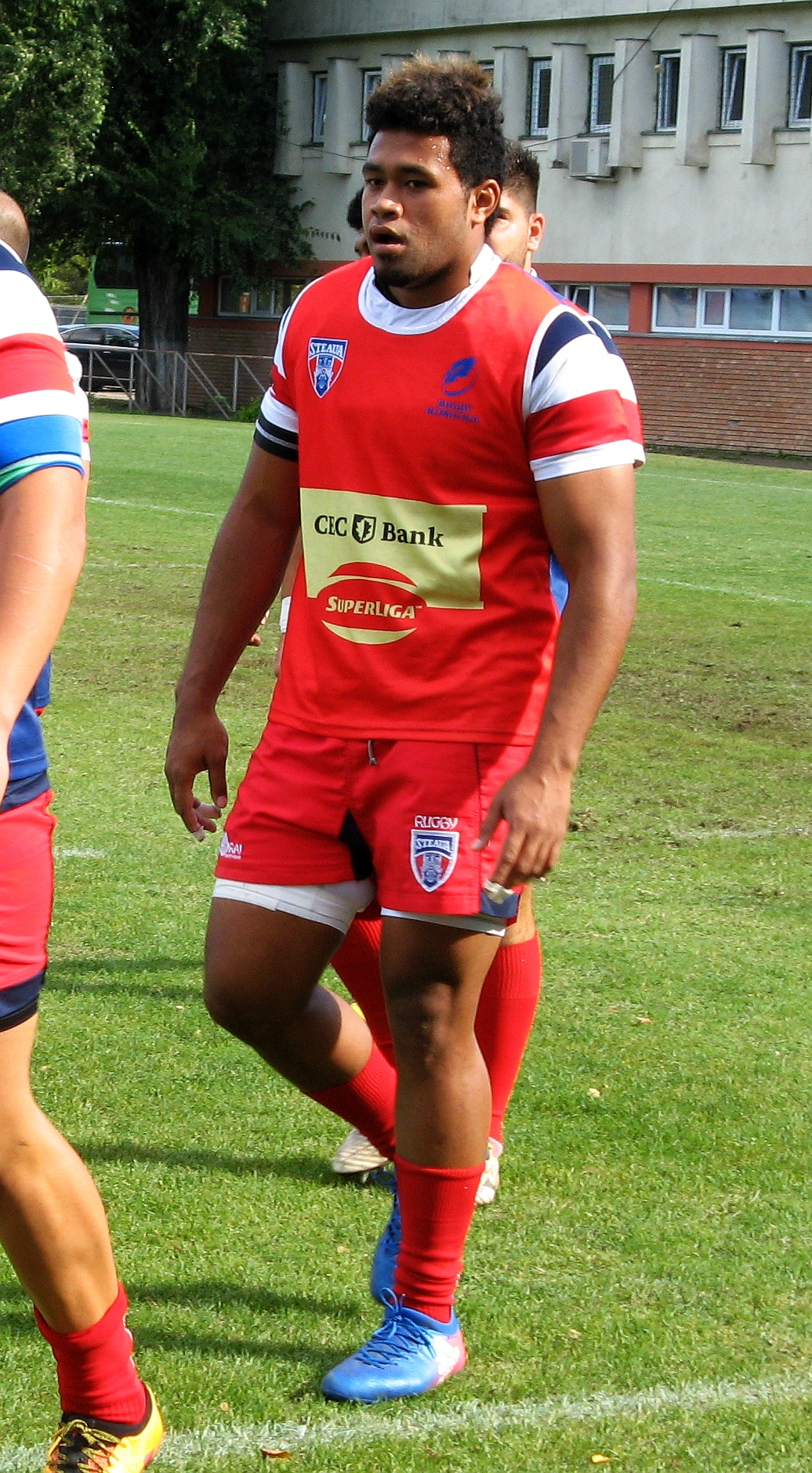 Tongan rugby union football player Tuihakavalu Ika, player of CSA Steaua București rugby club seen training before a match against CSM Baia Mare in Round 5 of Romanian Rugby SuperLiga in September 2017